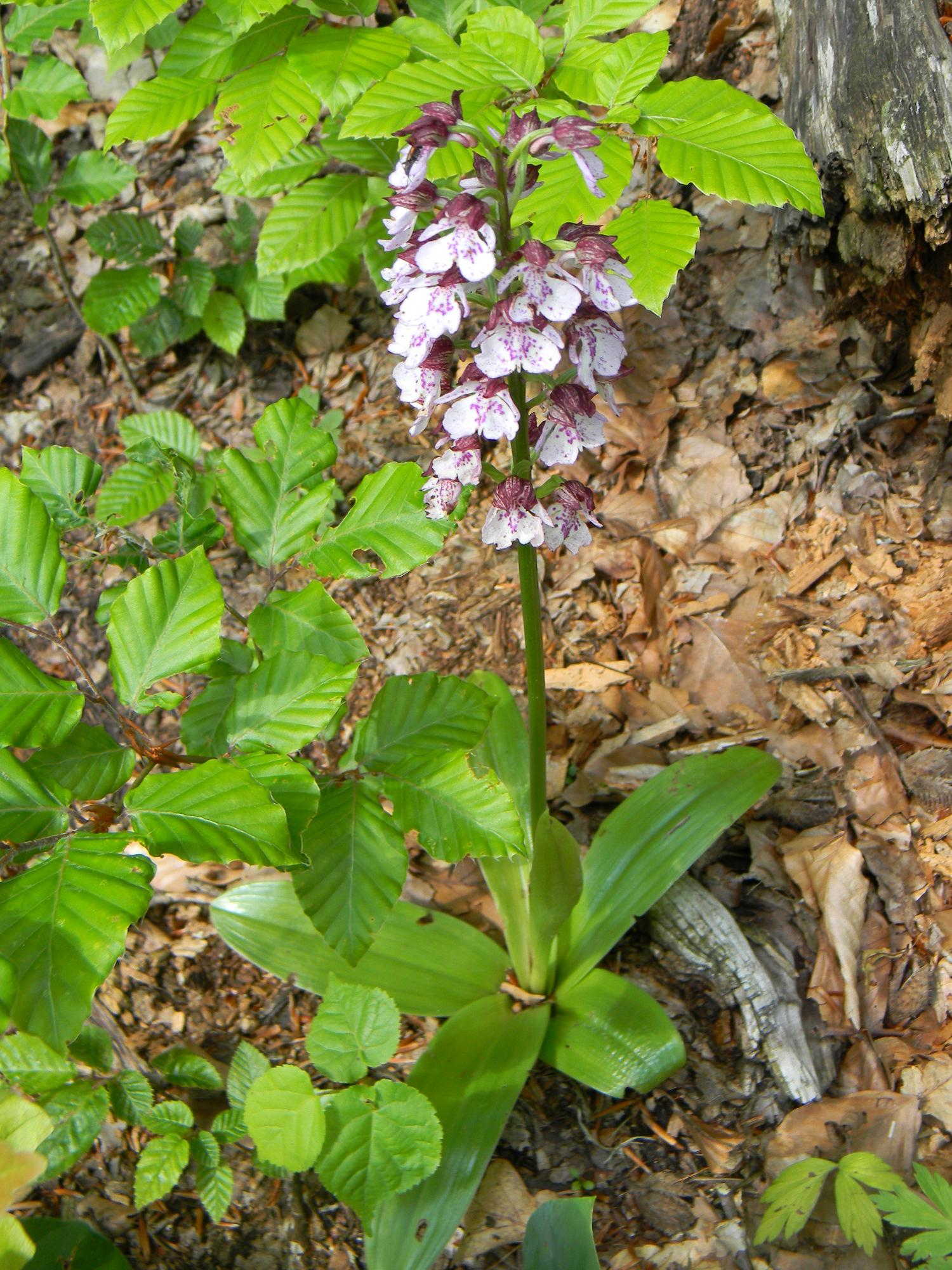 Orchis purpurea